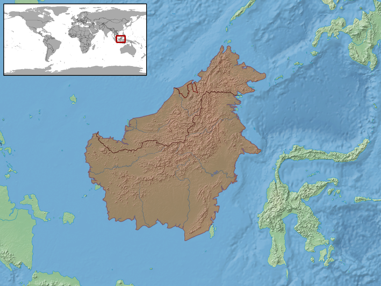 geographic distribution of Calamaria bicolor (Native: Indonesia (Kalimantan); Malaysia (Sabah, Sarawak))